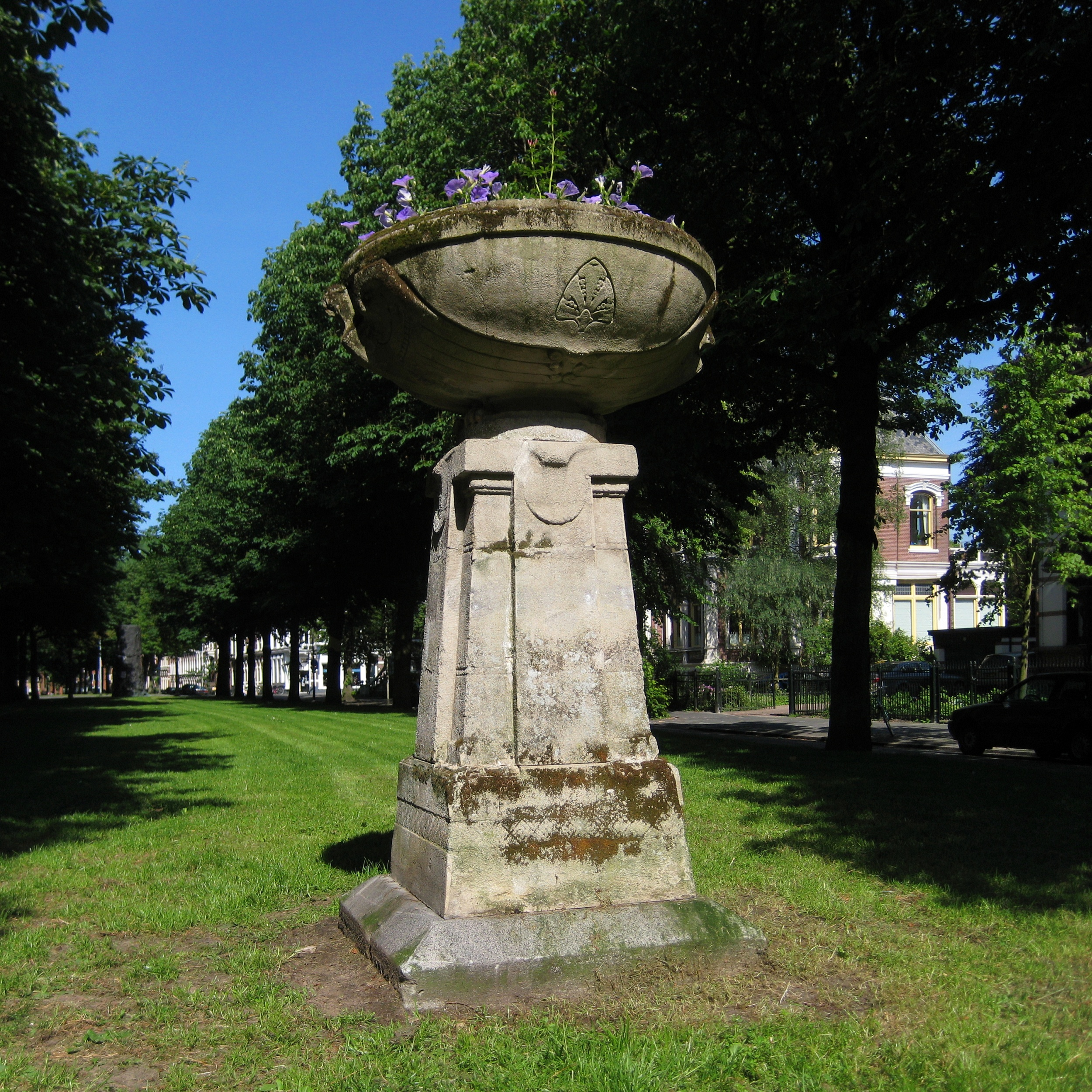 Vase (ca. 1910) in the Dutch city of Groningen.